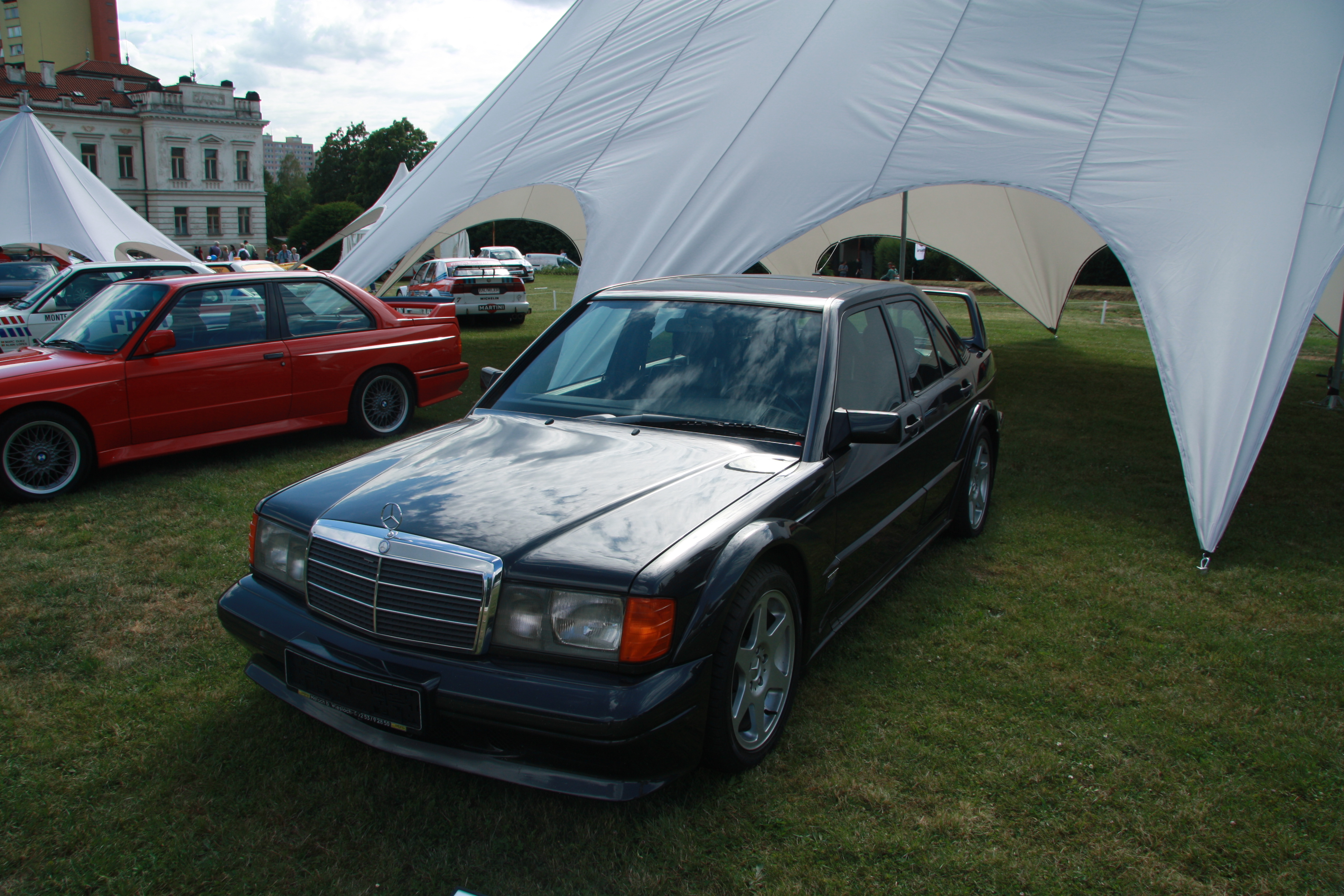 Mercedes-Benz 190E 2,5 - 16 EVO II at Legendy 2014.